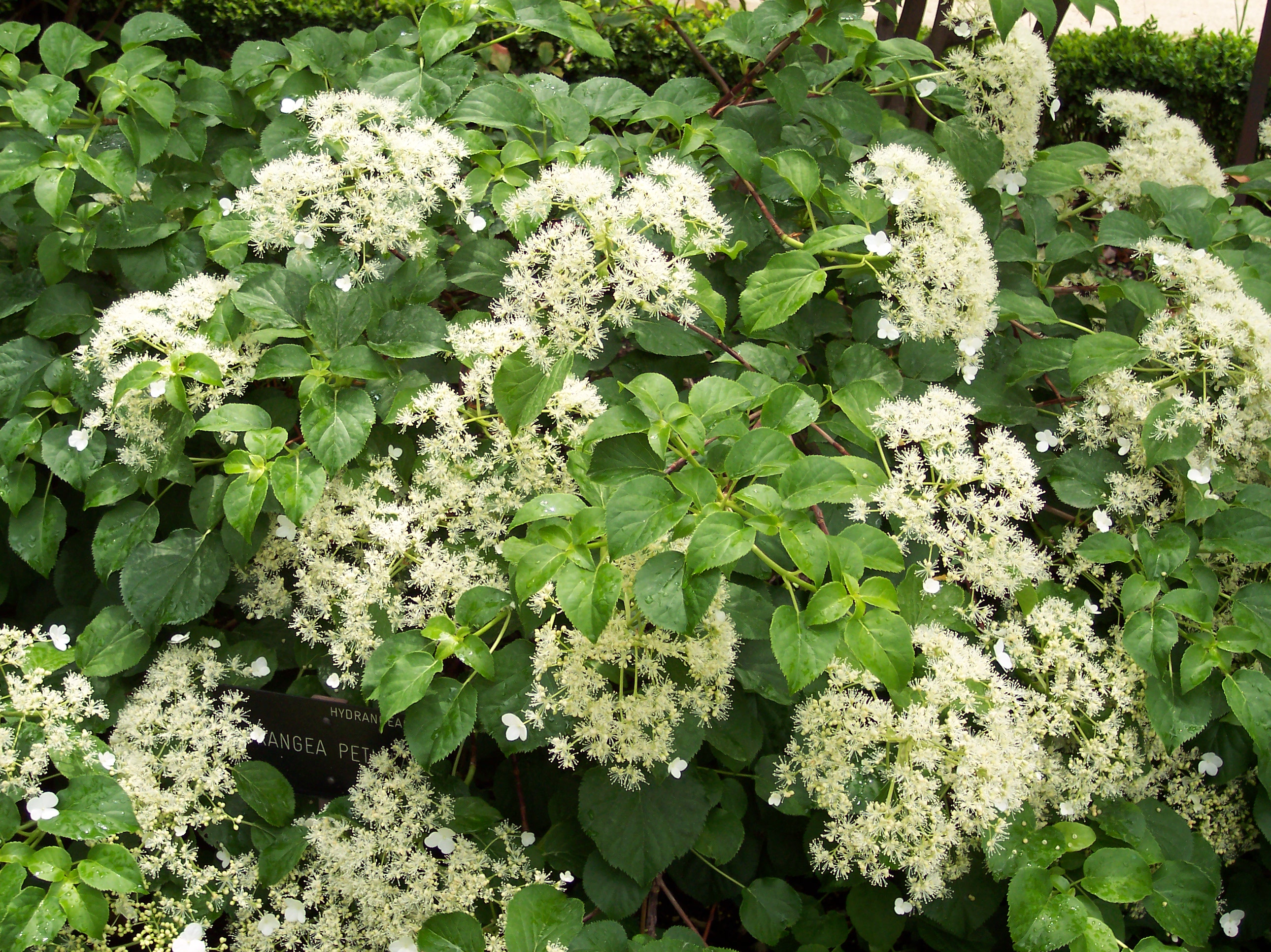 Hydrangea petiolaris — (synonym: Hydrangea anomala subsp. petiolaris). Blossoms and foliage close-up view. A specimen growing at the Royal Botanical Garden, Madrid.